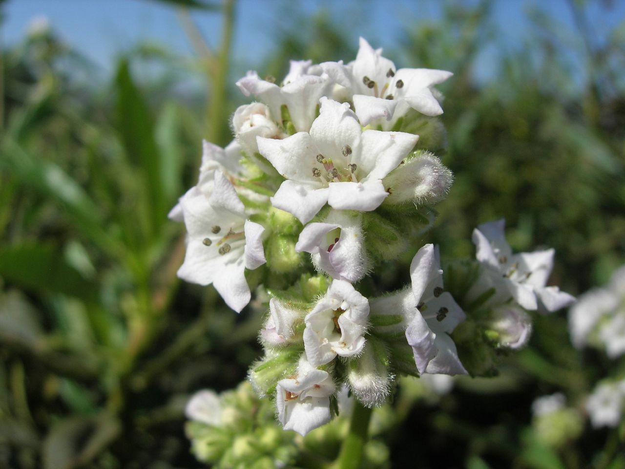 Eriodictyon trichocalyx, Cajon Junction, California, USA.